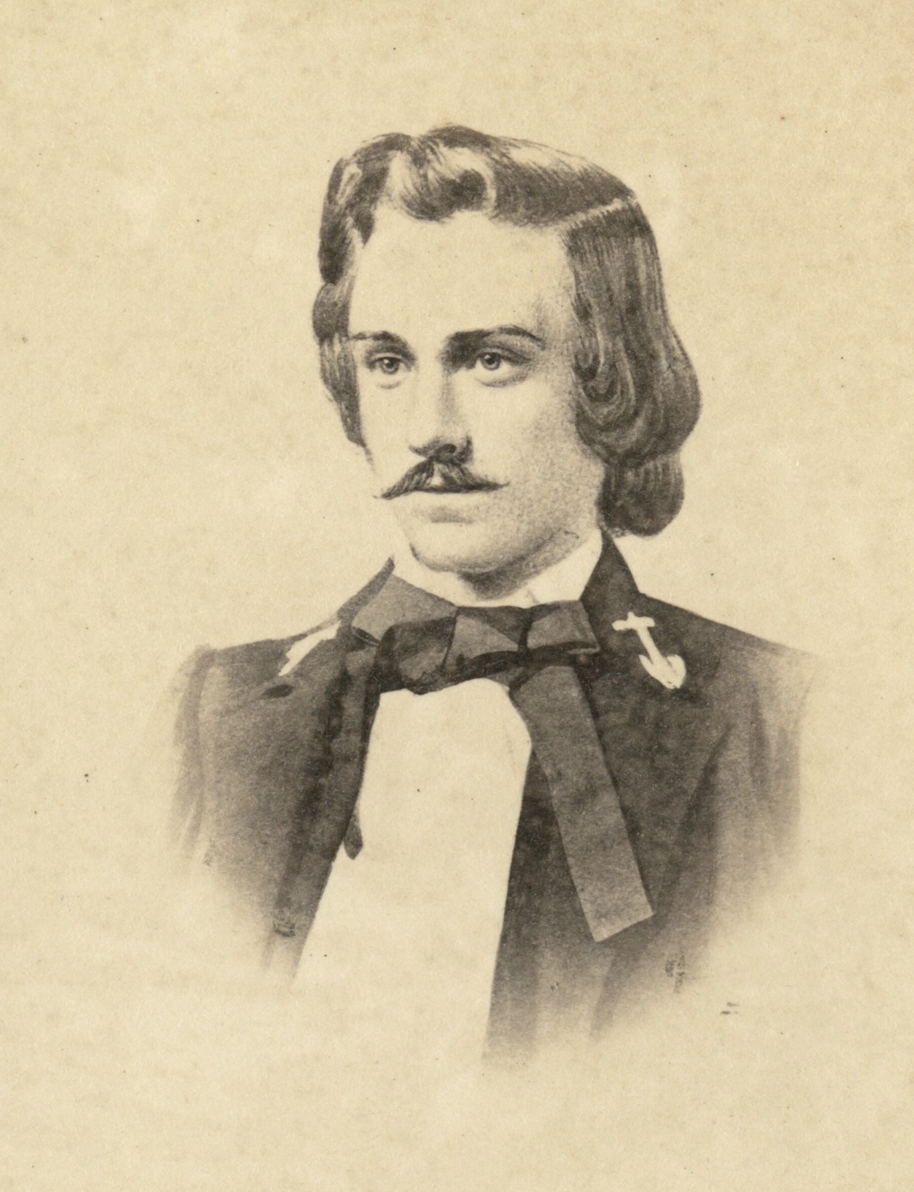 Charles W. Read. Caption reads: Lieut. Read, Privateer, "Tacony", William Emerson Strong Photograph Album, Duke University Libraries Digital Collections: Identifier: duke:307902